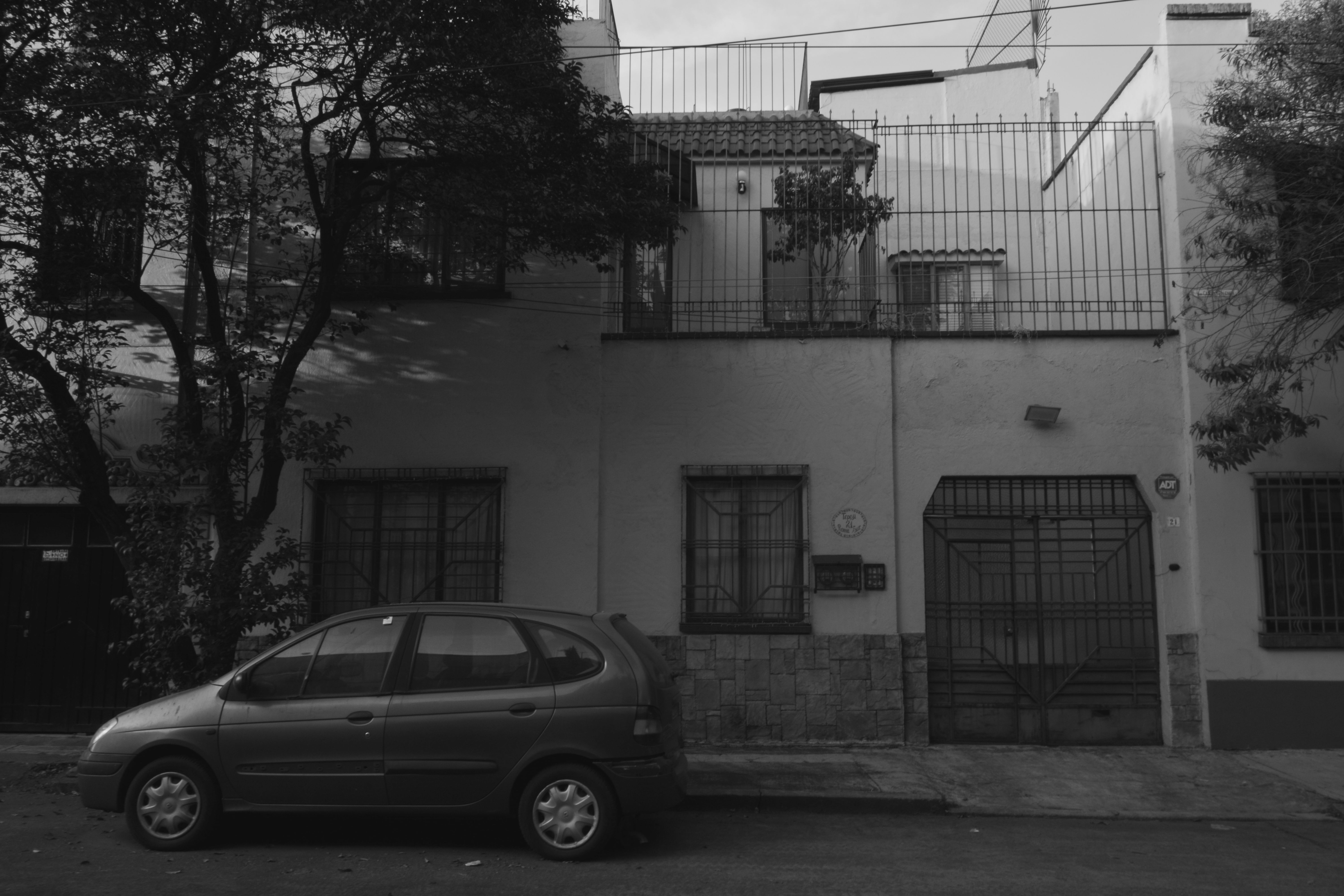 Alfonso Cuaron's "Roma" filming locations in Mexico City. BW version.